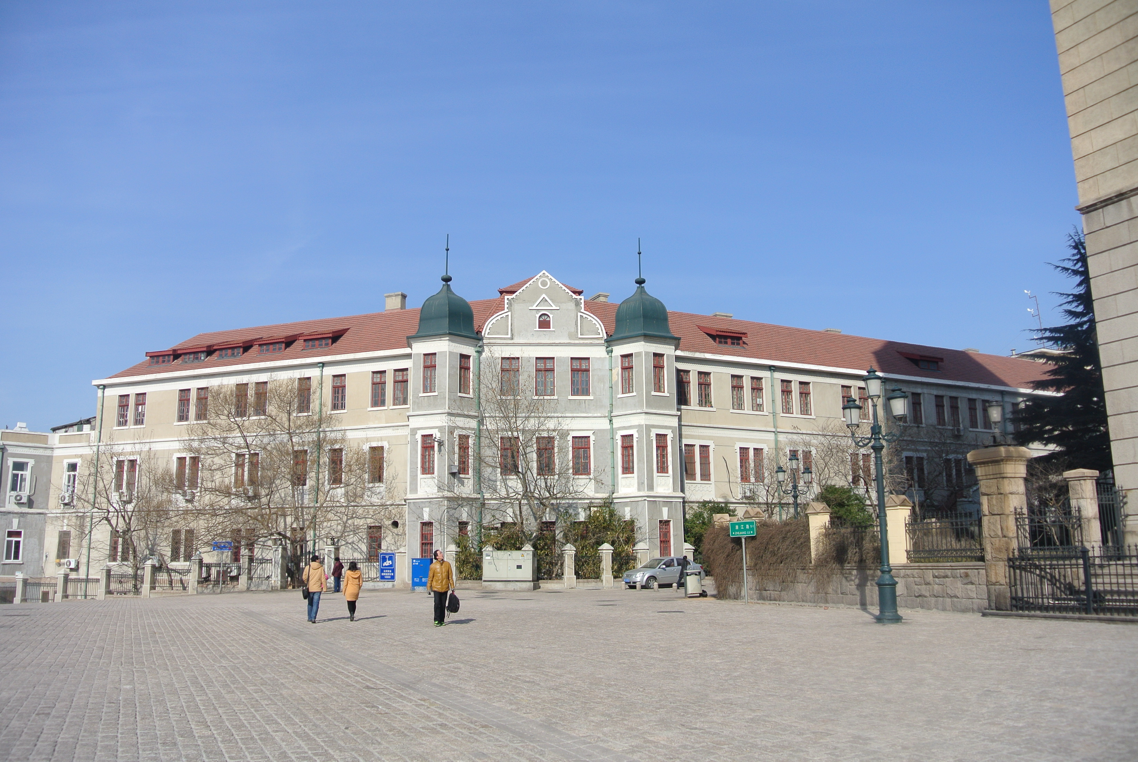 Former Monastery of Holy Spirit in Tsingtao/Qingdao